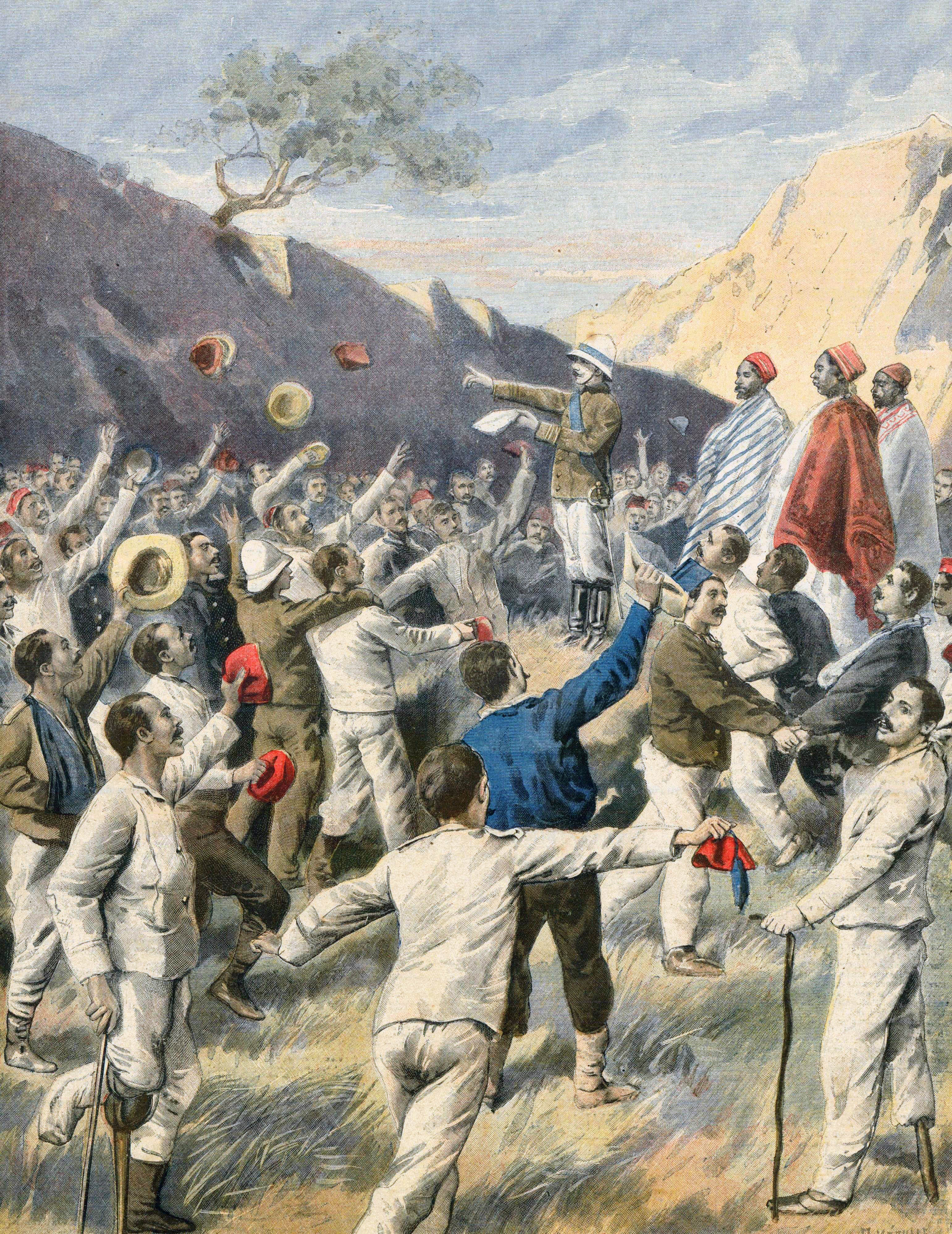 Freed Italian prisoners in Abyssinia - 1896